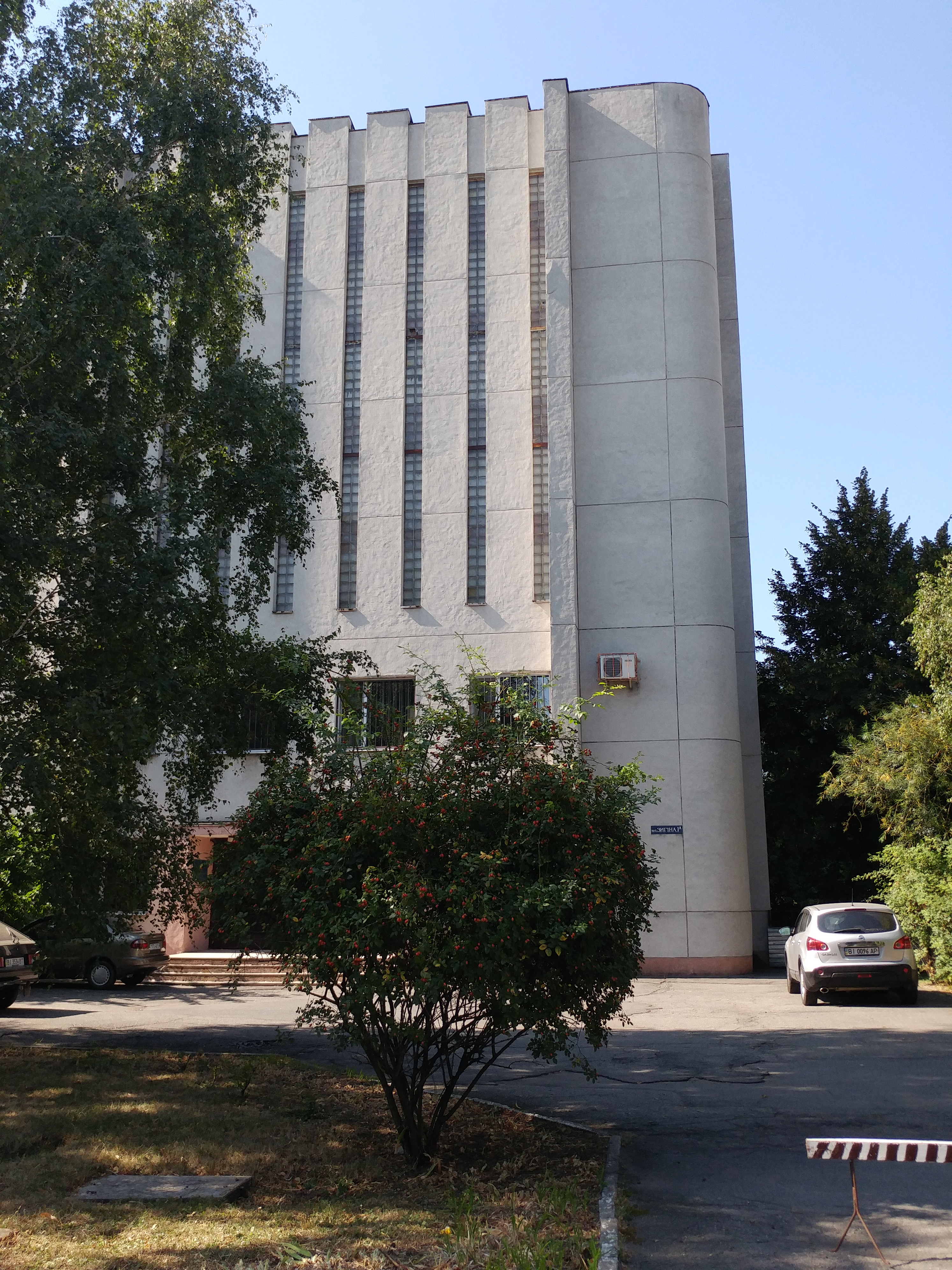 State Archive of Poltava Region. Hull # 2.